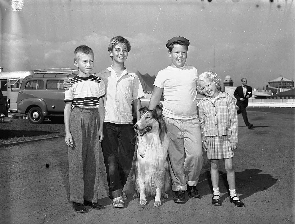 An appearance by Lassie at the Canadian National Exhibition (CNE) in Toronto, Ontario, Canada. The two boys on either side of Lassie are Tommy Rettig and Joey D. Vieira (a.k.a. Donald Keeler),who played Jeff and Porky in the Lassie television series. The other two were the children of William (Bill) Albert Harris, the Chairman of the CNE at the time.